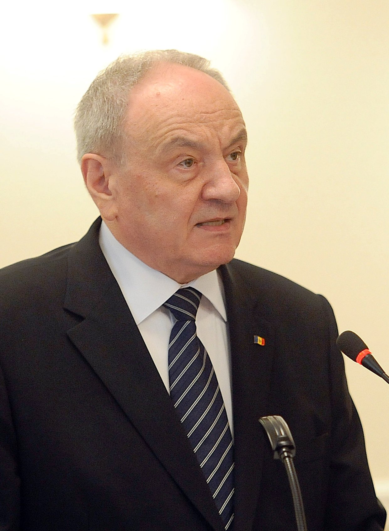 Speech of the Moldovan President at the receival of the Romanian President, Traian Basescu, during a state visit.